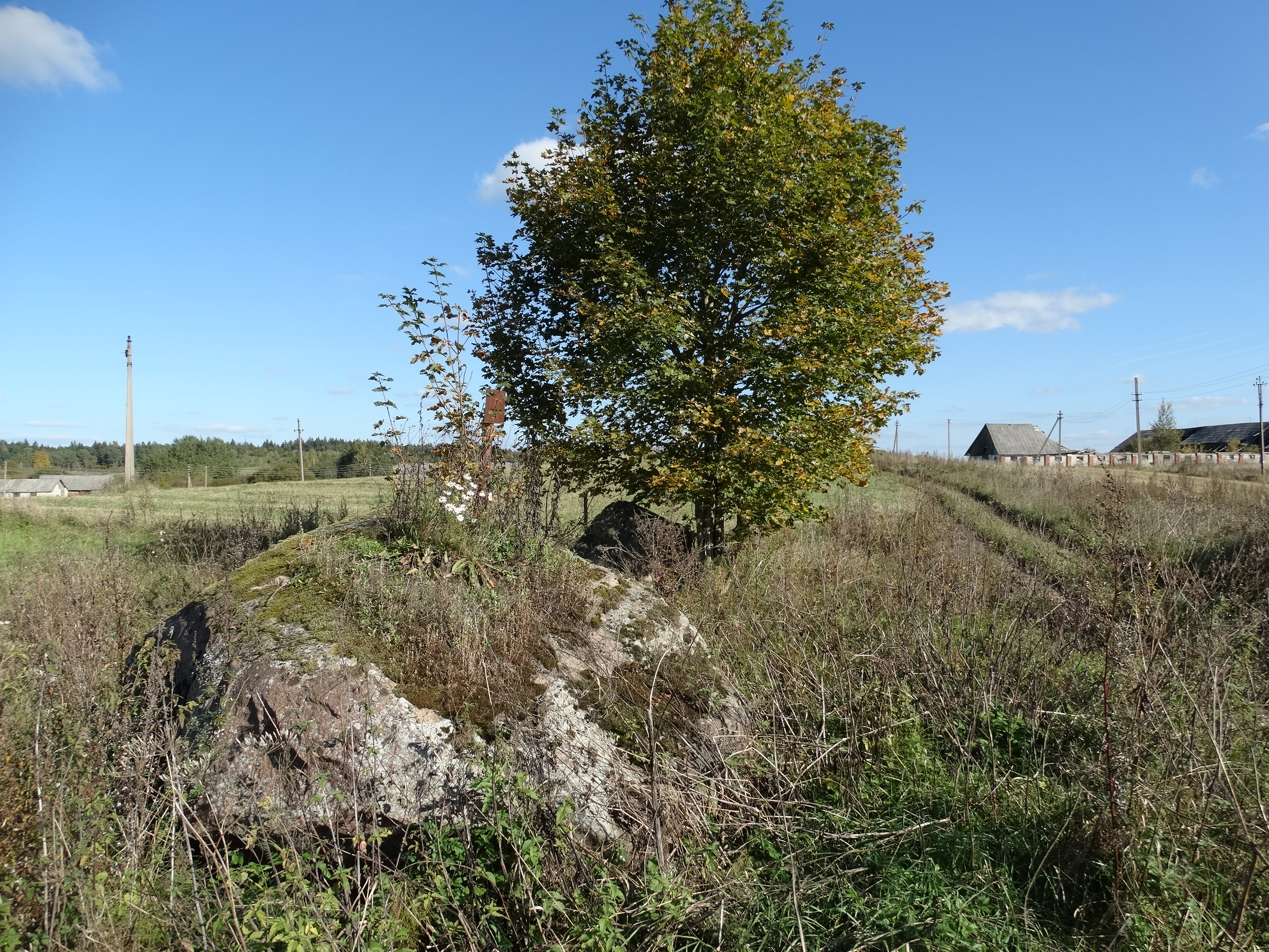 Varkalės IV Stone in Varkalės, Kaišiadorys District, Lithuania